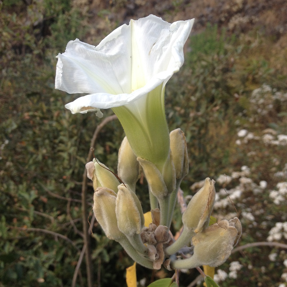 Picture of the inflorescence of Ipomoea murucoides, taken in Tianguismanalco, Puebla, Mexico (malpaís de Nealtican). This photo was first published on iNaturalist